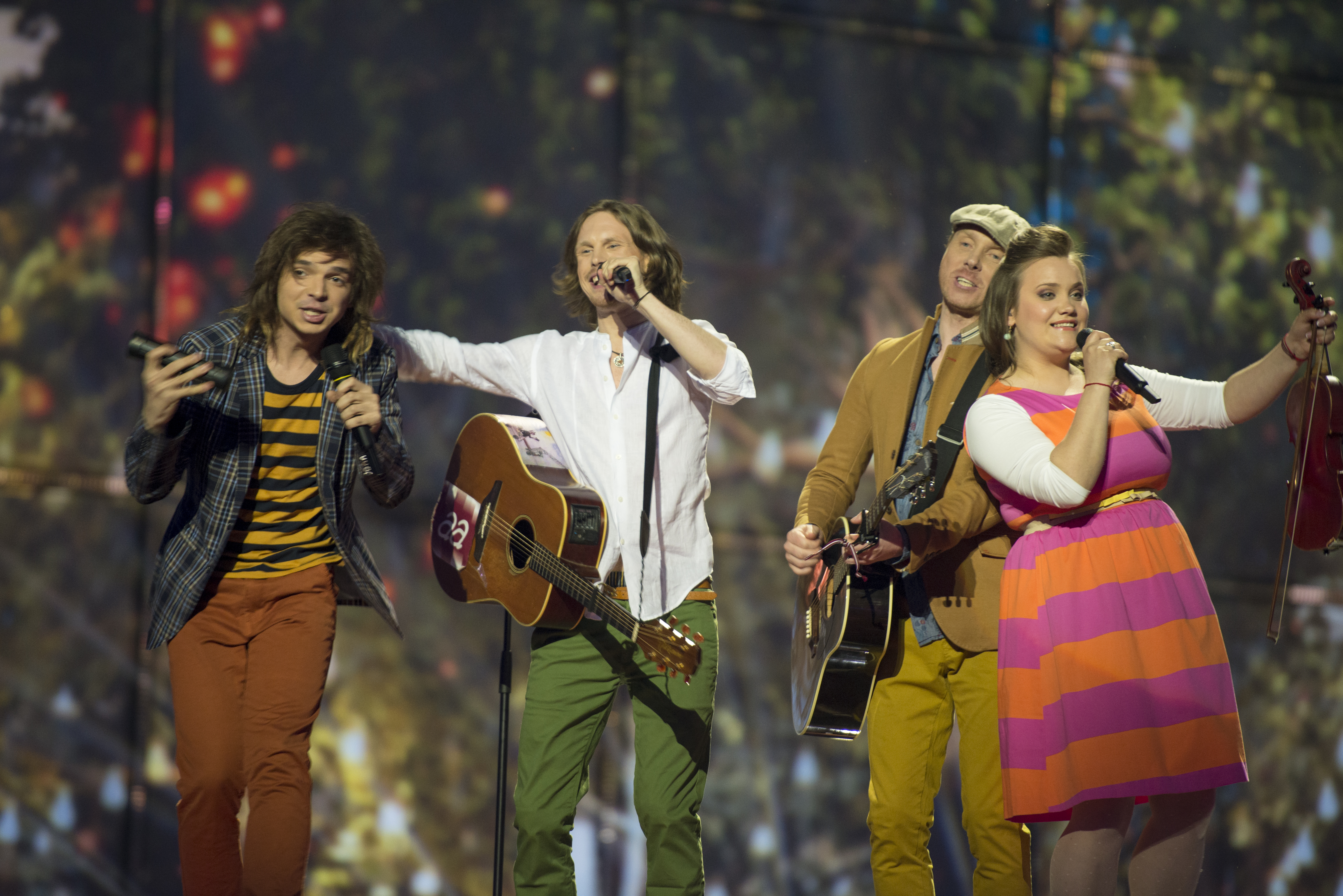 Aarzemnieki representing Latvia with the song "Cake to Bake" during the first dress rehearsal of the first semi final of the Eurovision Song Contest 2014 Copenhagen. (Help translate this text)